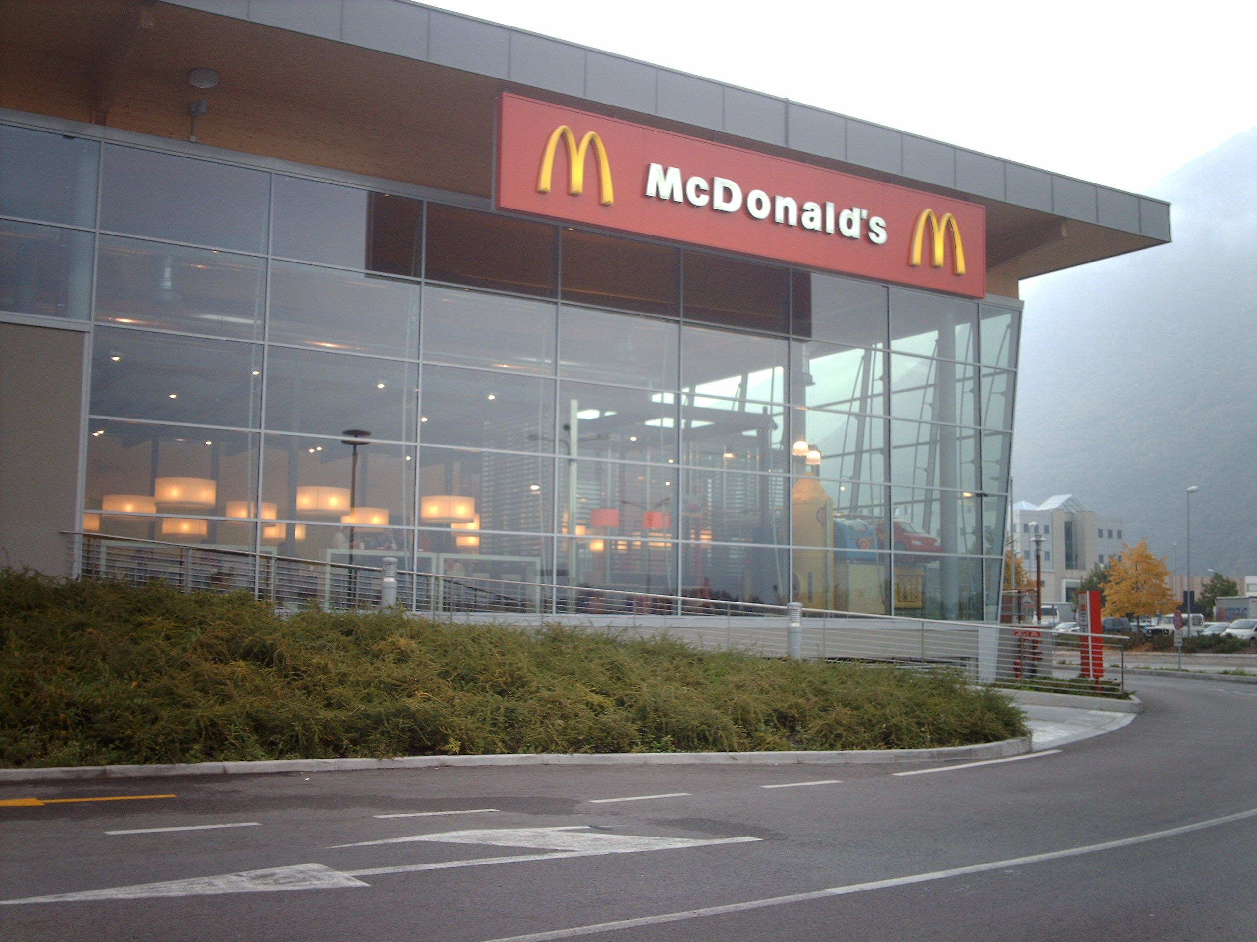 Picture by Skafa McDonald's in Bolzano/Bozen